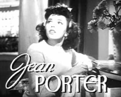 Cropped screenshot of Jean Porter from the trailer for the film Twice Blessed